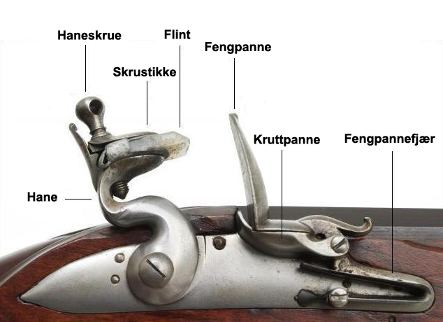 Norwegian terms for the parts of a flintlock, based om FlintlockMechanism.jpg by Engineer comp geek